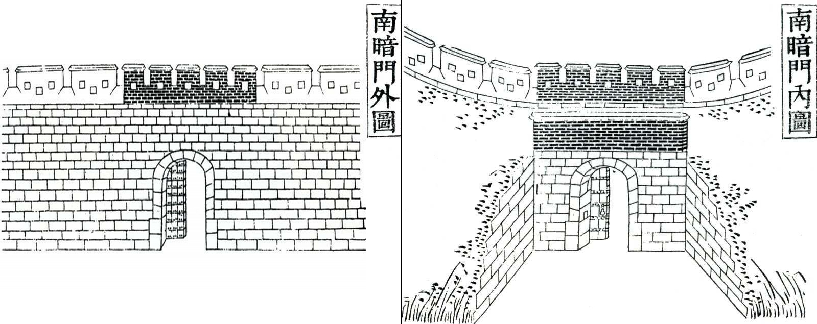 The South Secret Gate of the Hwaseong Fortress in the 1801 Uigwe